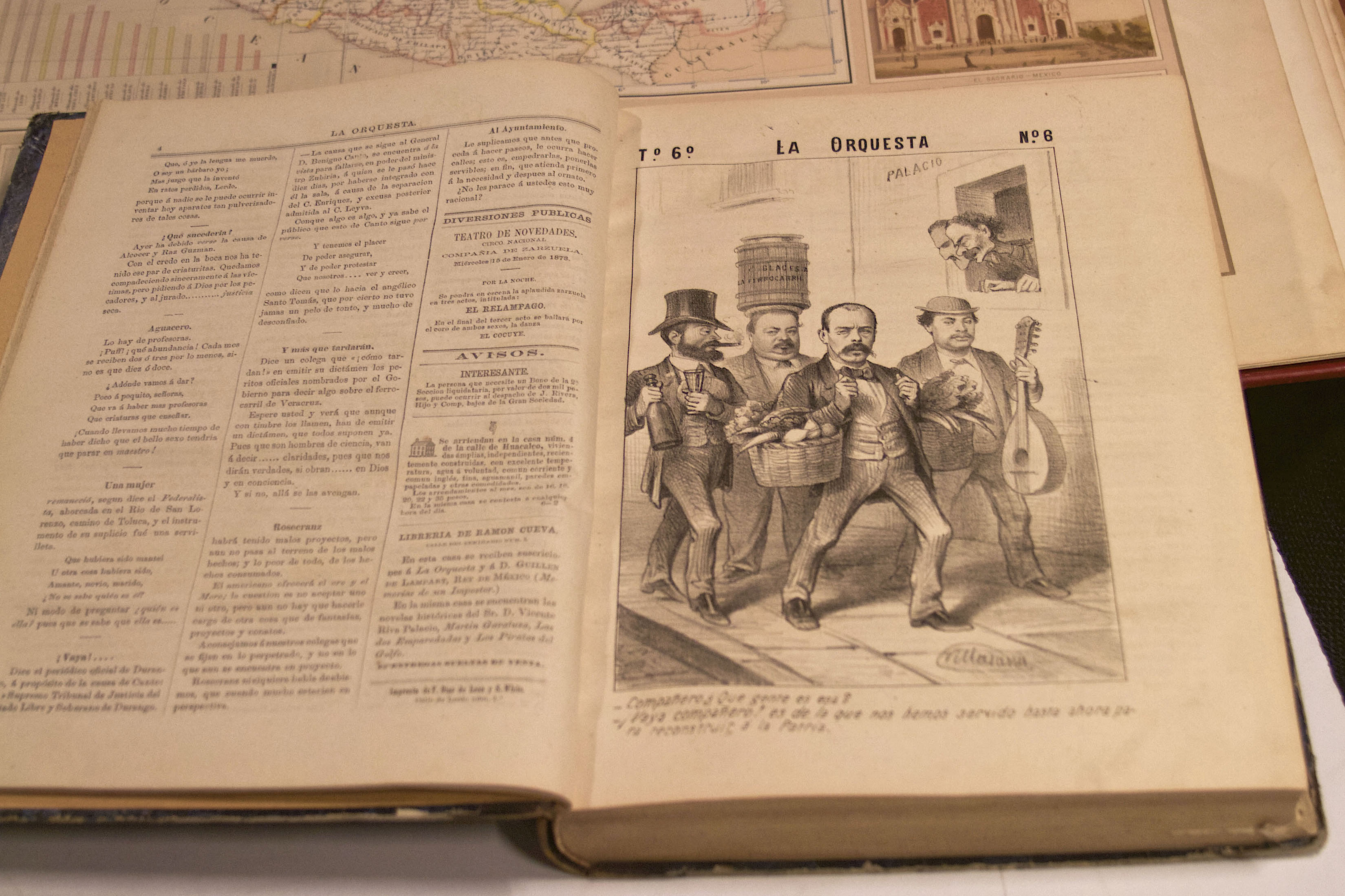 La Orquesta, 19th-century Mexican newspaper. Picture by Milton Martinez / Secretaria de Cultura de la Ciudad de Mexico.